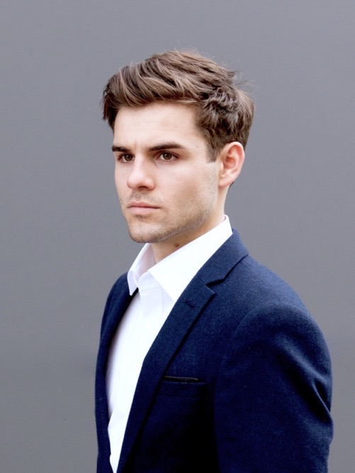 portrait of Lucas Reiber, german actor, 2016